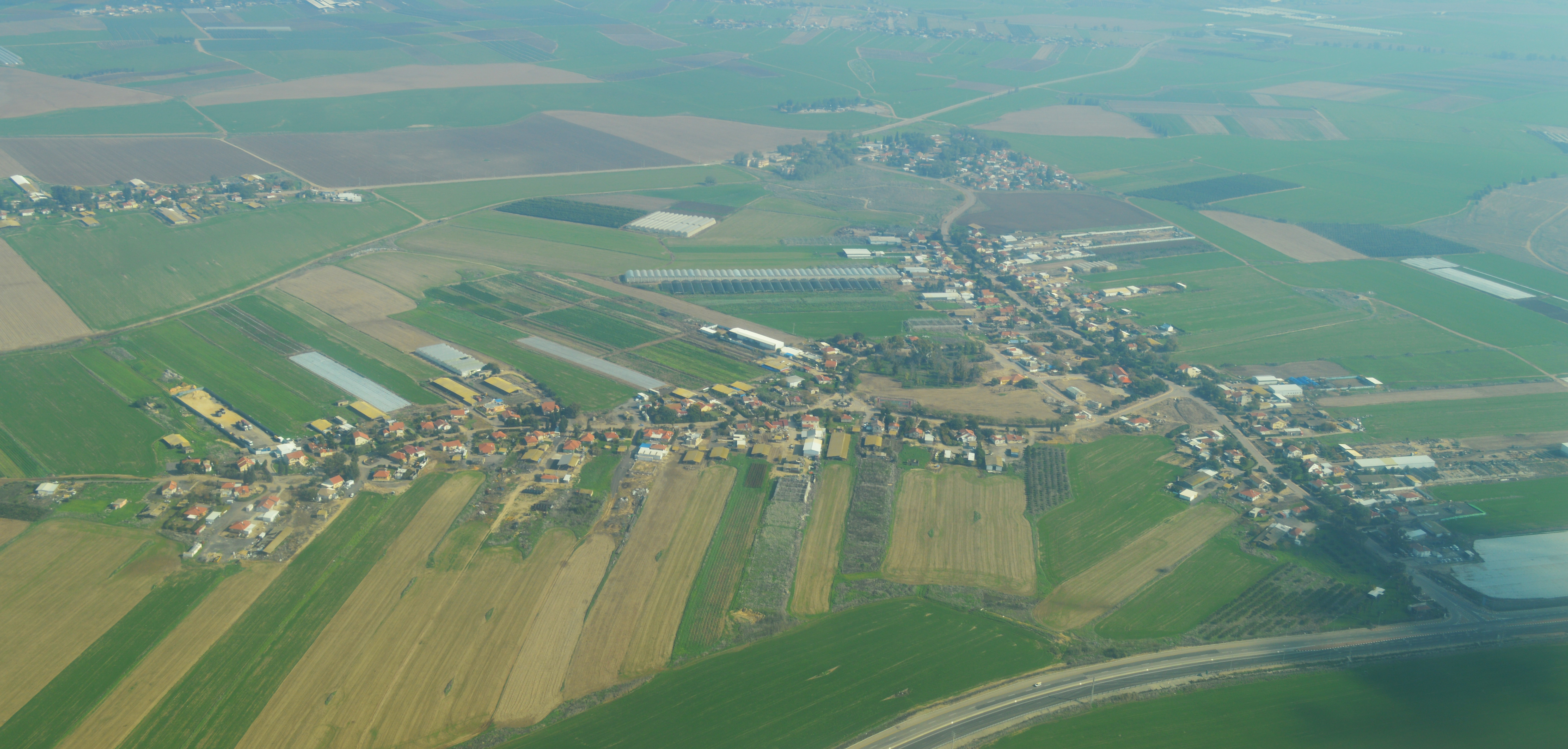 Revaha Aerial View